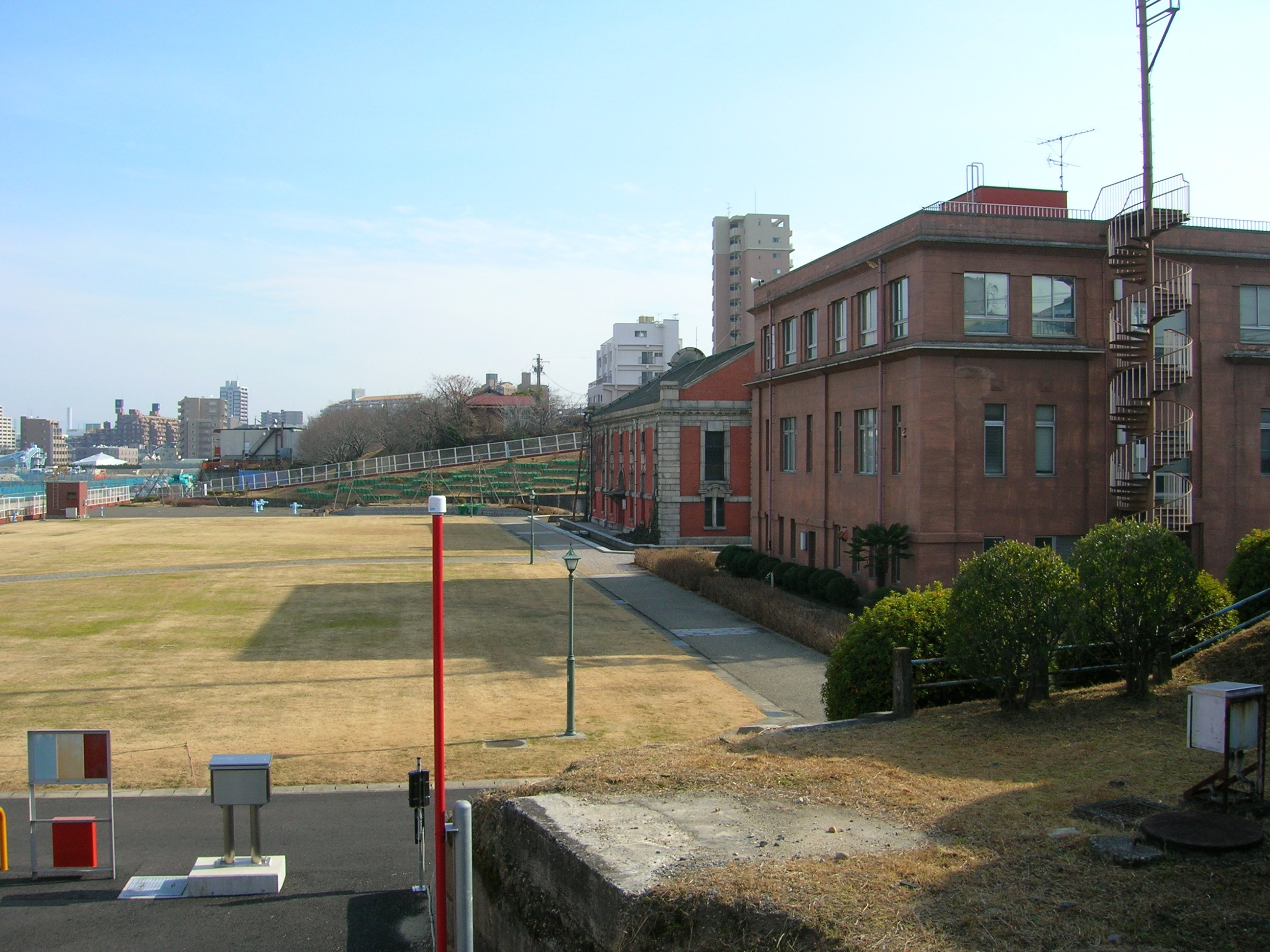 Nabeya-ueno Purification Plant. Loc: Chikusa-ku, Nagoya city, Aichi Prefecture, Japan. 鍋屋上野浄水場の第1ポンプ所（名古屋市都市景観重要建築物）と第2ポンプ所（名古屋市認定地域建造物資産）。 撮影場所 愛知県名古屋市千種区